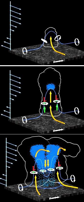 On the left side of each image, the direction and the speed of the environmental wind is shown by arrows. Horizontal vorticity produced by the shear in the lowest levels is tilted into updraft creating cyclonic (+) and anticyclonic (-) vertical vorticity on south and north side of storm. Dynamic low pressure in response to rotation enhances updraft. Rain causes downdraft in middle which splits storm in 2. For a right (left) moving storm, cyclonic rotation is in updraft (downdraft) and anticyclonic rotation is in downdraft (updraft) with tight reflectivity gradient (inflow flank) on south/east (north) side of storm.